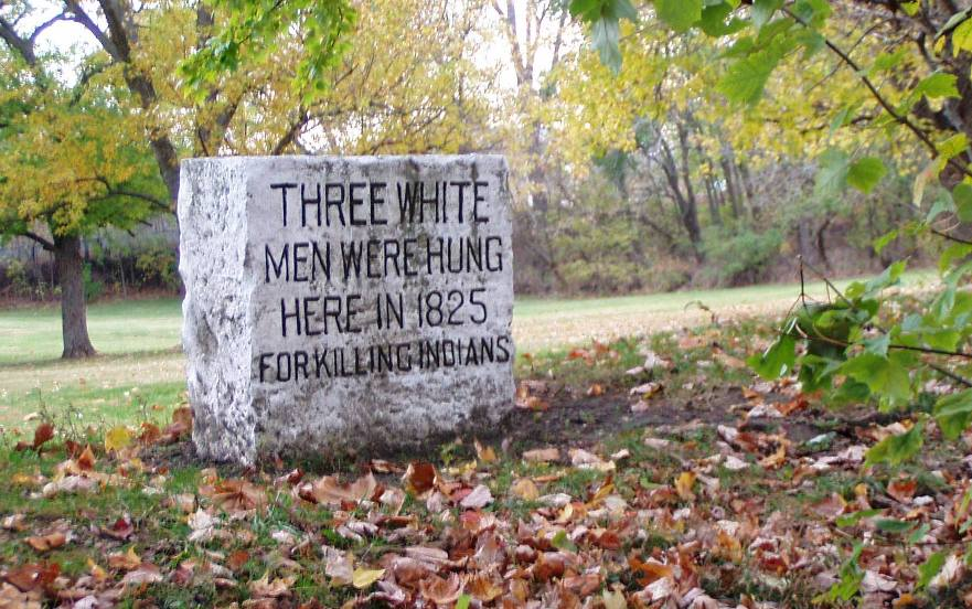 Stone marker commemorating the hangings of the men who committed the Fall Creek Massacre. The stone is in Fall Creek park in Pendleton, Indiana. (The stone is on the far side of the creek, near the foot bridge.)